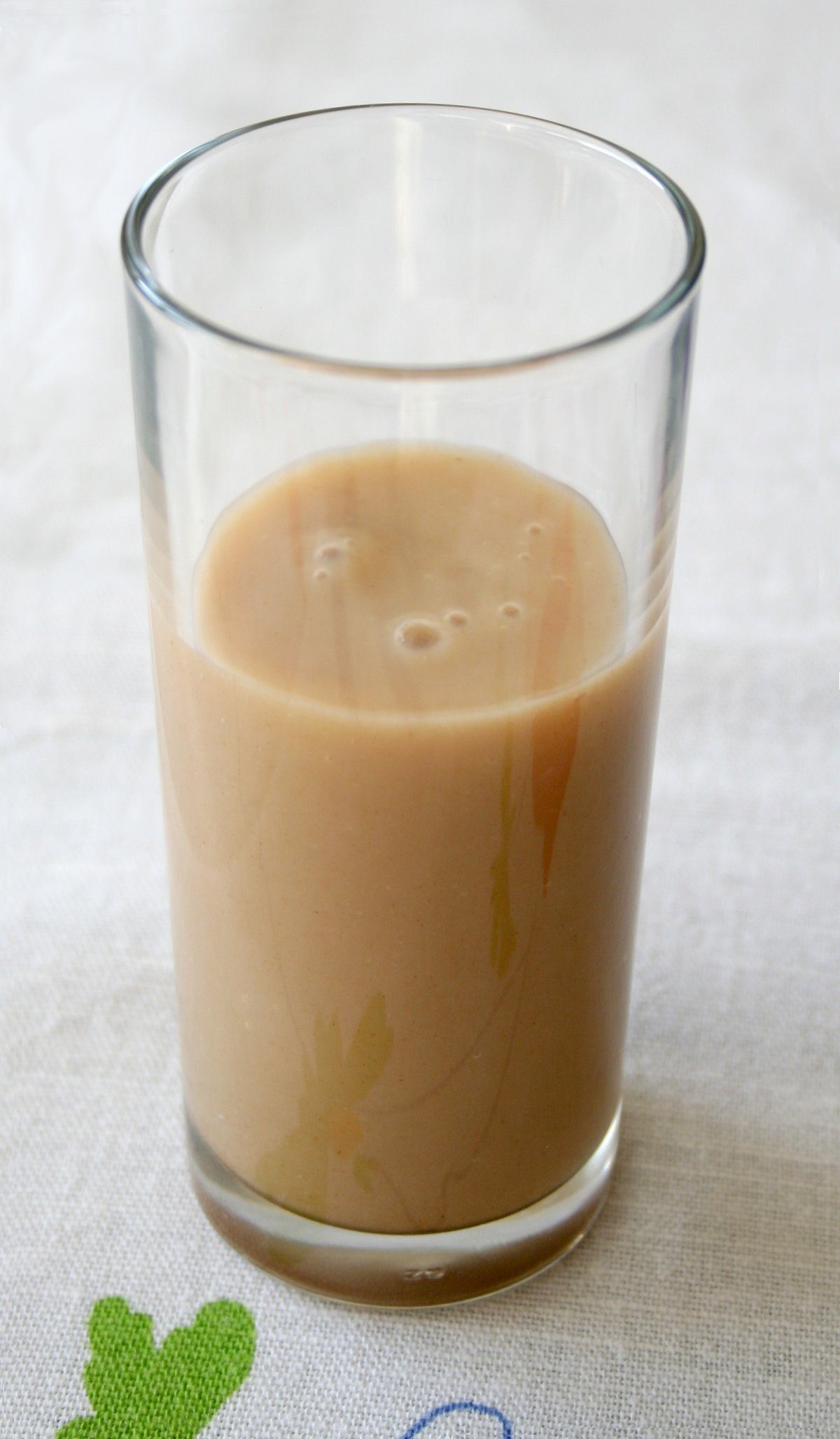 A glass of Bulgarian boza